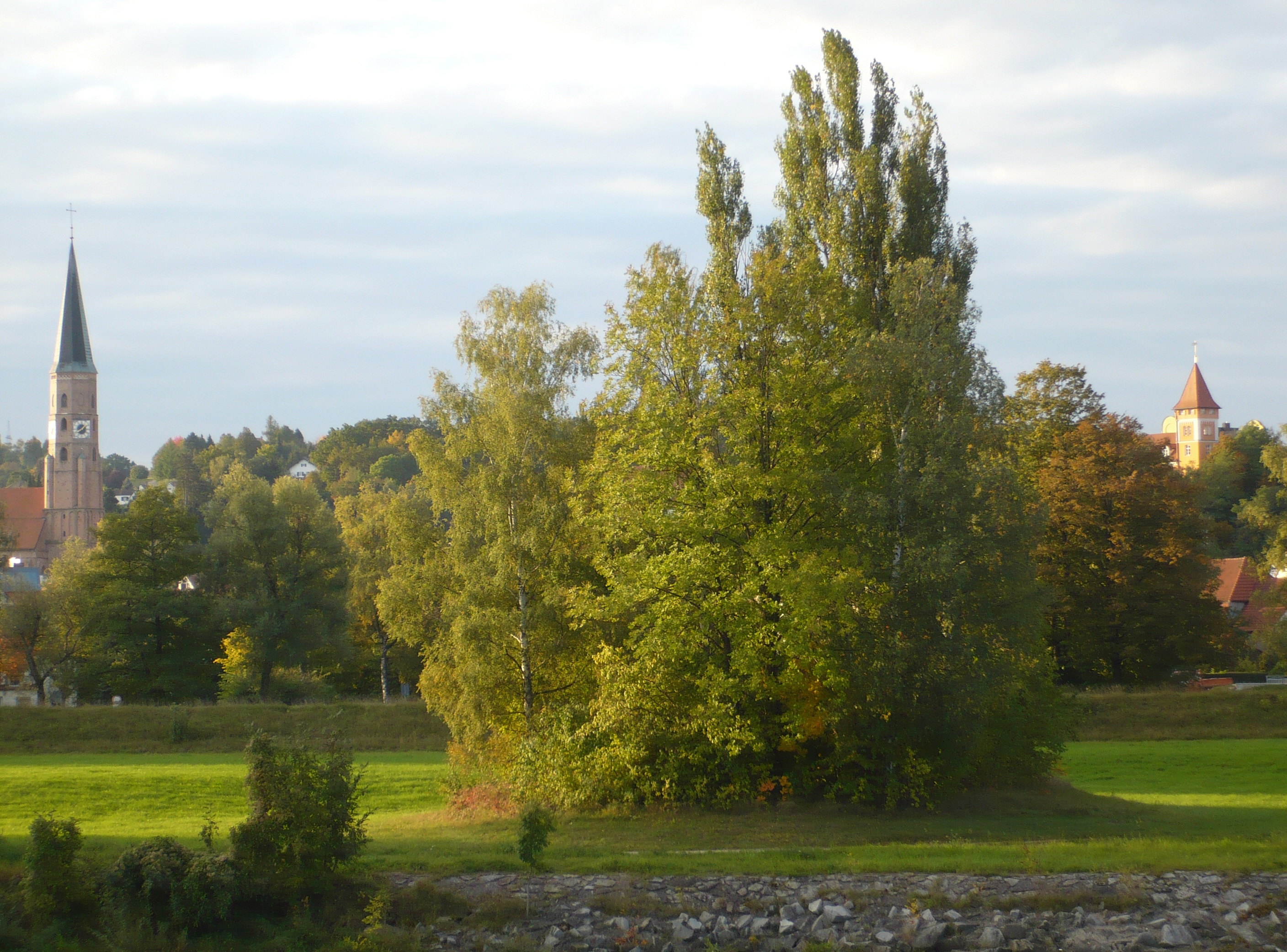 Photo: Dingolfing